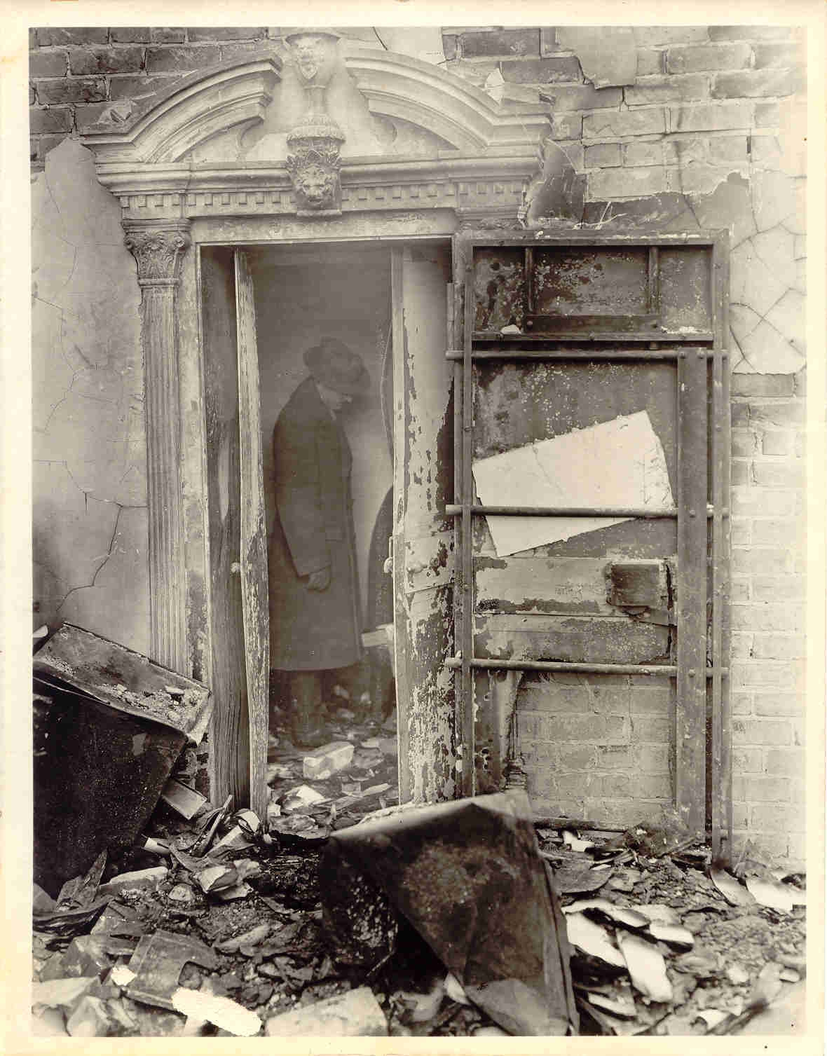 vvbank